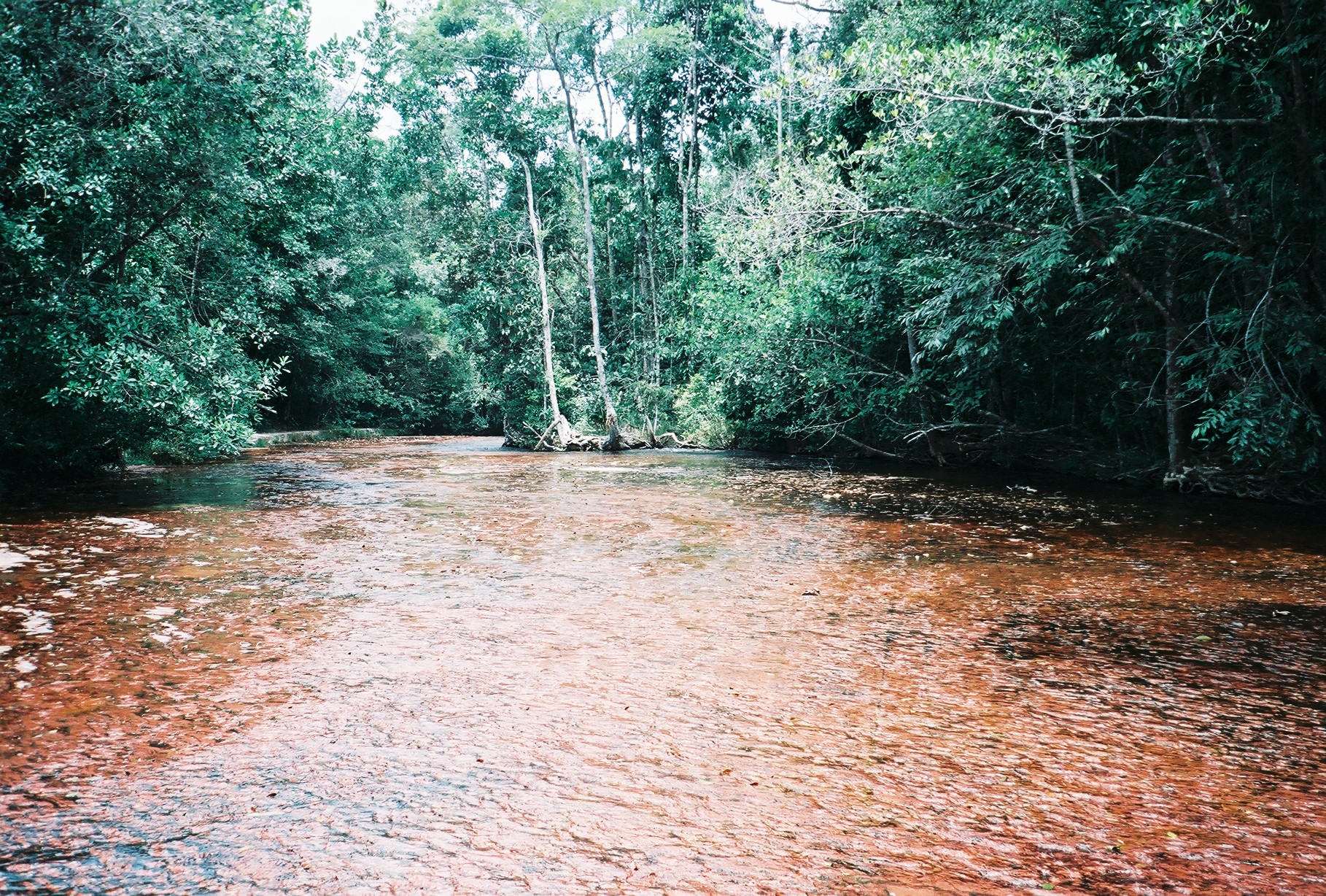 The Quebrada de Jaspe in the Gran Sabana, Venezuela.